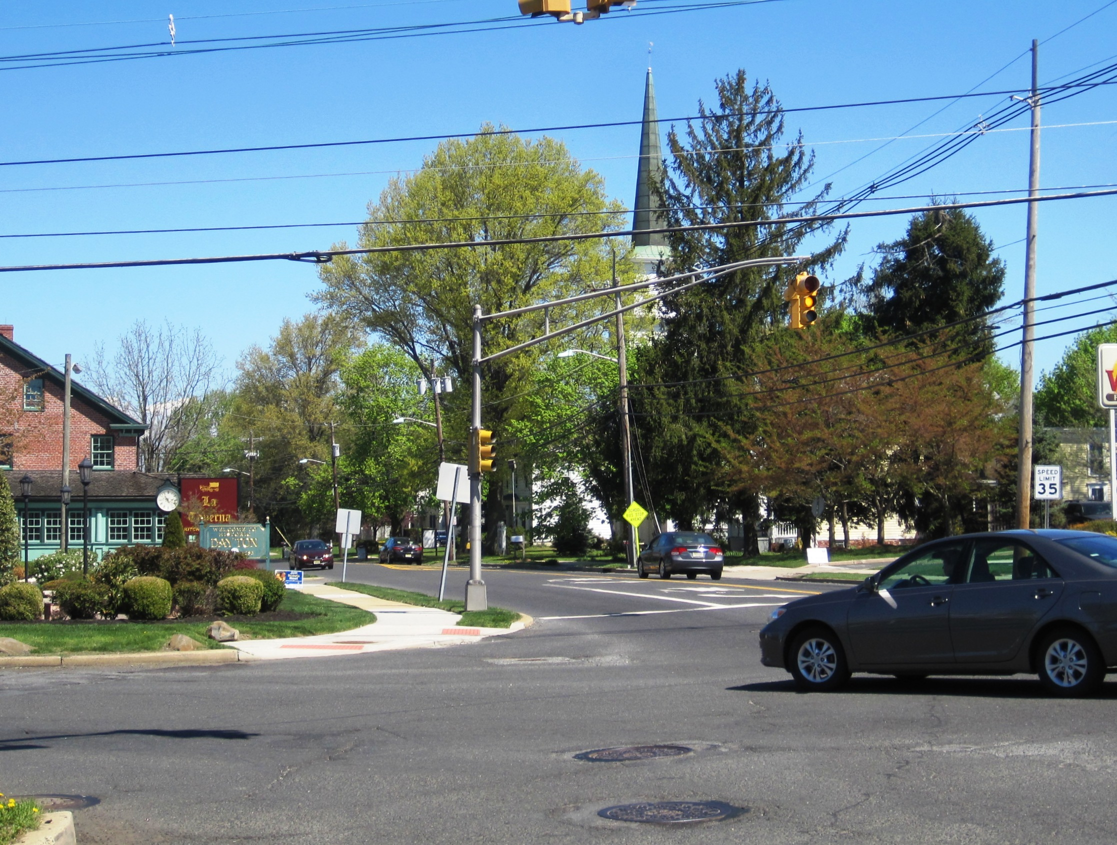 Photo showing Dayton, New Jersey, an census designated place within South Brunswick. Photo was taken at the intersection of Georges Road, Ridge Road, and Culver Road.